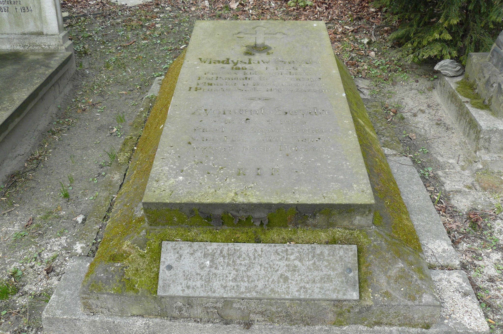 Wladyslaw Seyda Tomb, Poznan.